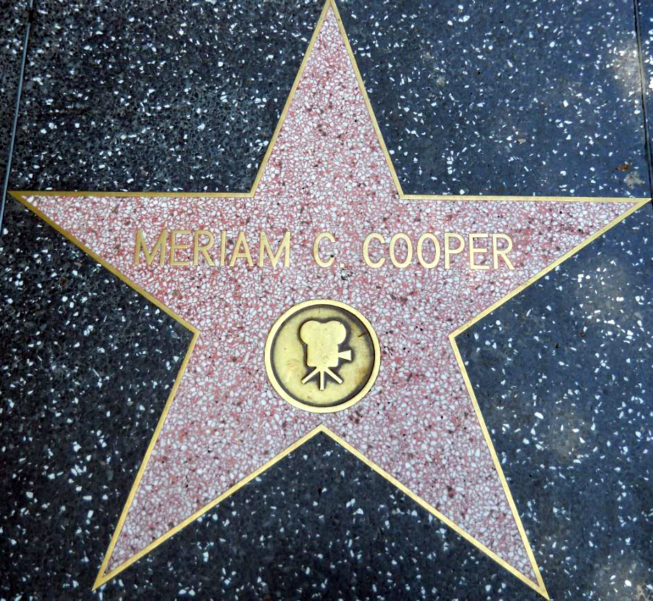 Merian C. Cooper's star on the Hollywood Walk of Fame at 6525 Hollywood Blvd. (First name is mis-spelled "Meriam")